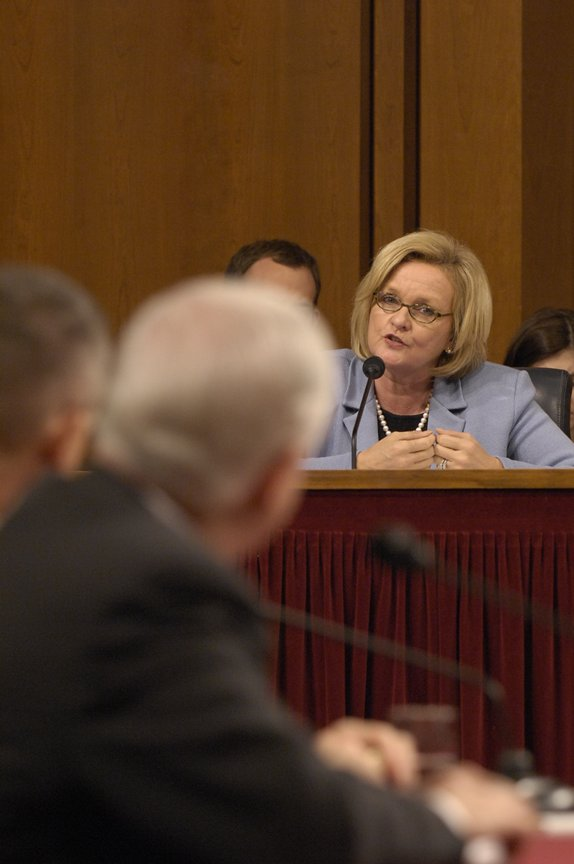 Claire McCaskill, member of the United States Senate from Missouri since 2007, speaking during a committee hearing.